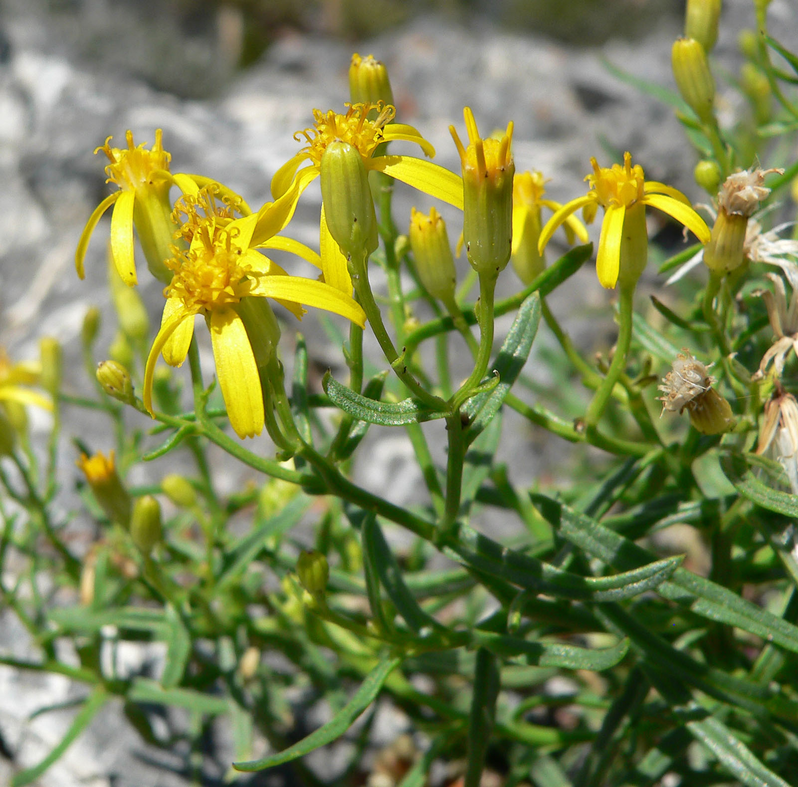 Senecio spartioides near the North Loop trail, Spring Mountains, southern Nevada (elev. about 2700 m)